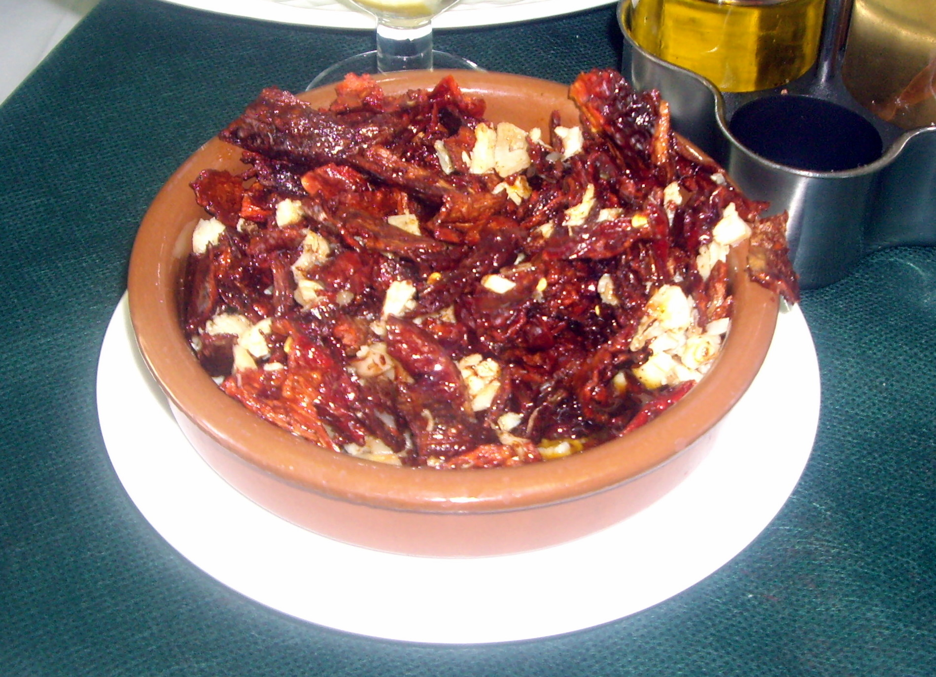 Pericana (fried dried peppers, garlic, salt and dried cod with oil) typical cuisine of Alcoi